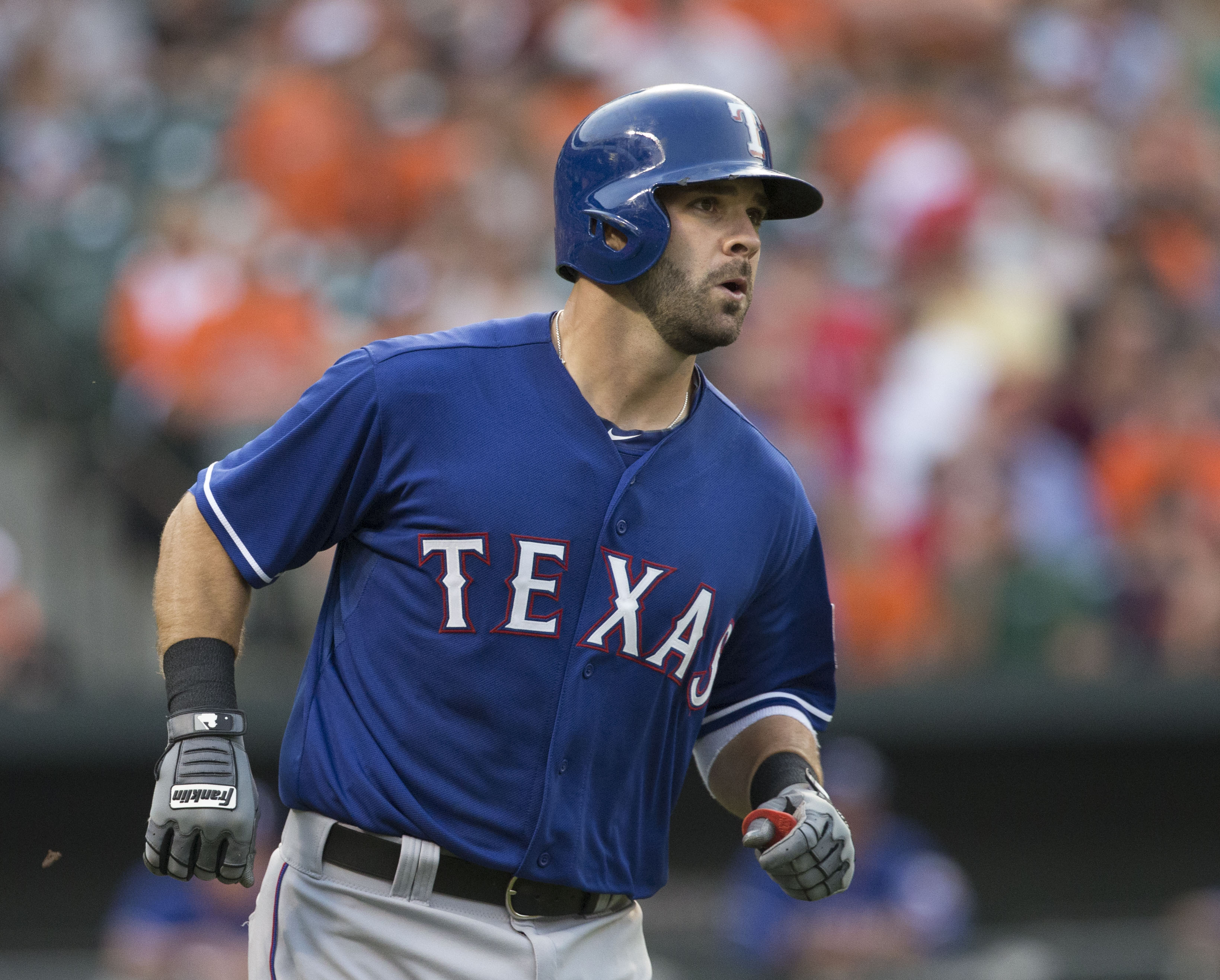 Rangers at Orioles 6/30/15